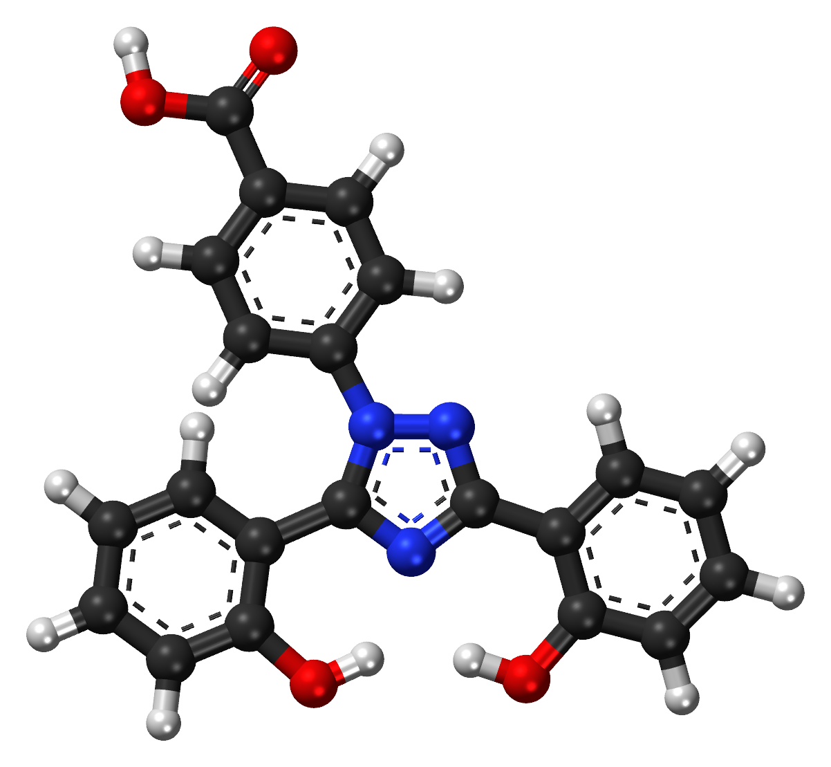 Ball-and-stick model of deferasirox (original brand names Exjade and Jadenu)—an orally available iron chelator. Created using Accelrys DS Visualizer 4.1 and Adobe Photoshop CC 2015. Colors used: Carbon, C: dark grey Hydrogen, H: light grey Nitrogen, N: blue Oxygen, O: red This chemical image was created with Discovery Studio Visualizer.